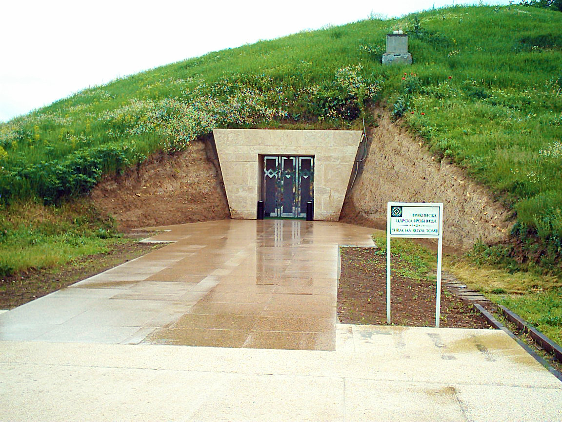 Sveshtary Tumulus - Tracian Tomb or temple